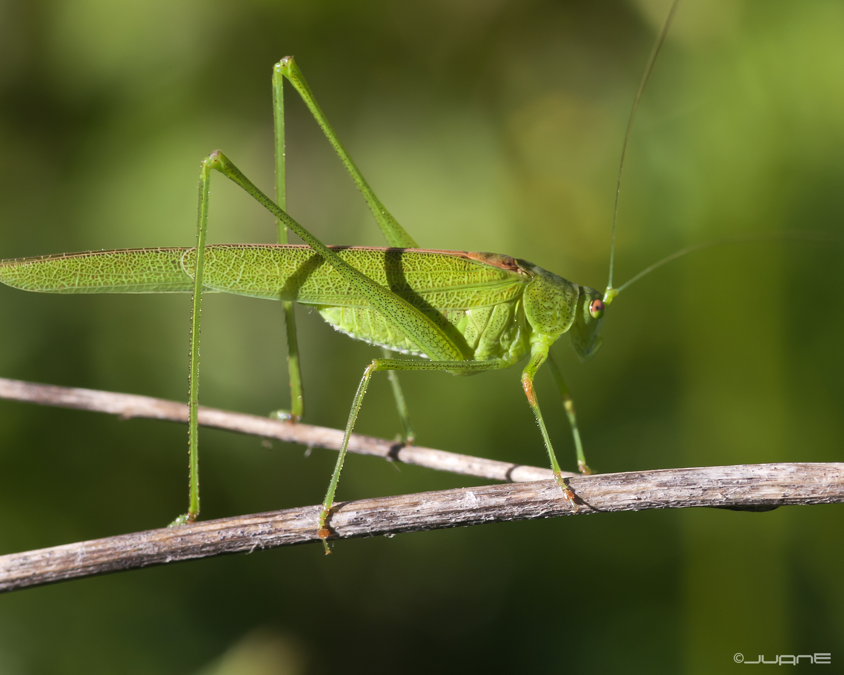 male Phaneroptera falcata